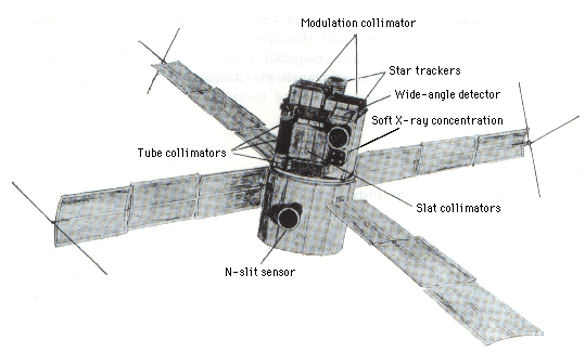 This is a .gif diagram of NASA's SAS 3 Small Astronomy Satellite, downloaded from NASA's High Energy Astronomy Science Archive SAS 3 gallery, at Built by the Johns Hopkins Applied Physics Laboratory (APL). It shows an overall view of the spacecraft as it appeared deployed, with major features labeled. The S/C z-axis points to the upper right. The scientific instrument package is above, and the spacecraft section (power conditioning and batteries, command and data electronics, communications equipment, momentum wheel for attitude control) are in the lower section. One star sensor views along the +z axis, and one looks out along +y, which is pointed out of the picture. The Rotating Modulation Collimator system looks up along the +z axis, while the slat and tube collimators, and the Soft X-ray experiment (LEDs), look out along the +y axis. The four solar power panels, which look like the sails of a windmill, could be rotated by command to catch the maximum solar flux. A detailed description of the spacecraft and mission can be found at Mayer 1975, APL Tech Digest, 14, 14. Downloaded by User:Wwheaton, 18 October 2009.